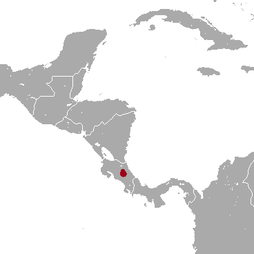 Harris's Olingo (Bassaricyon lasius) range